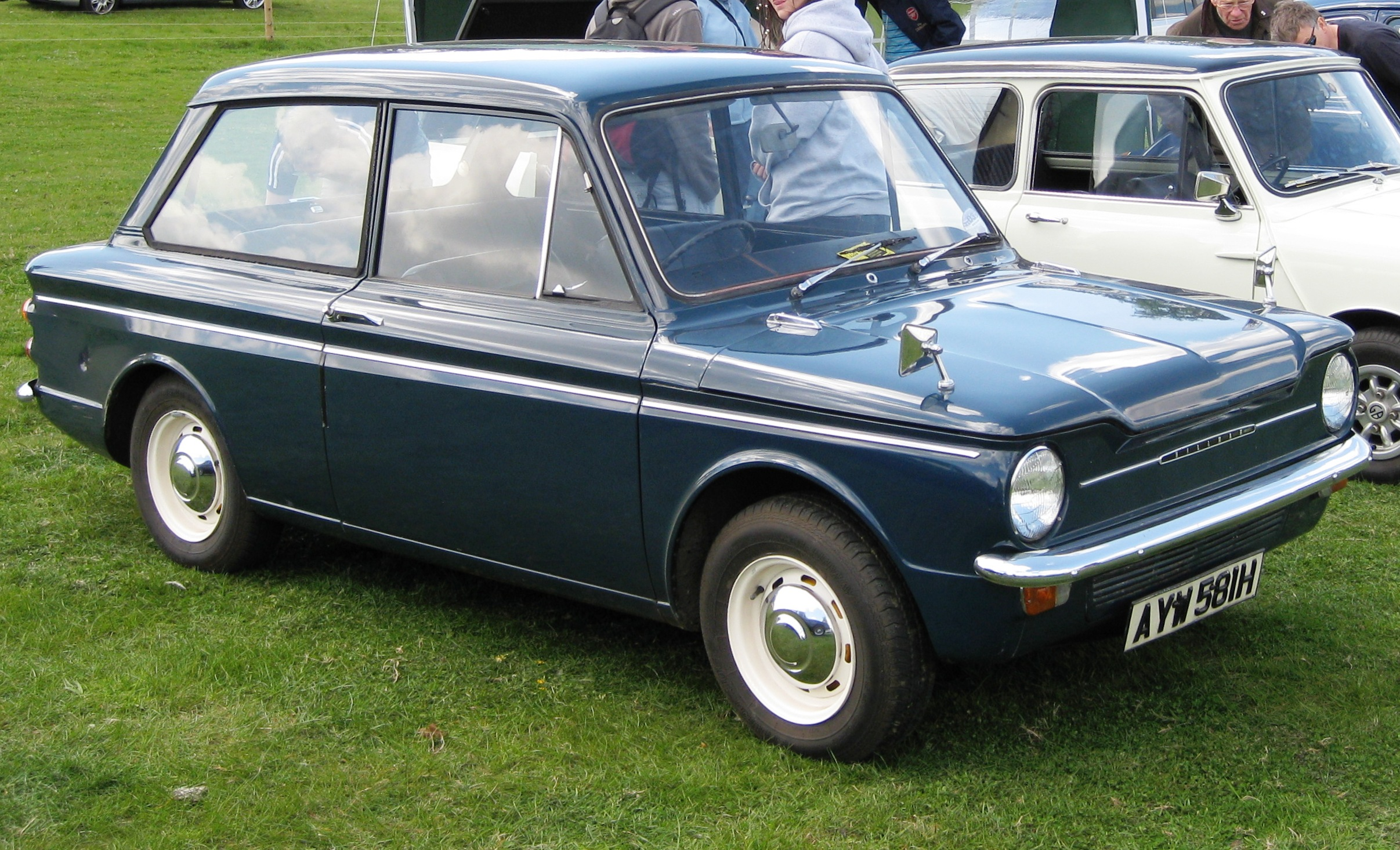 Hillman Imp near Biggleswade